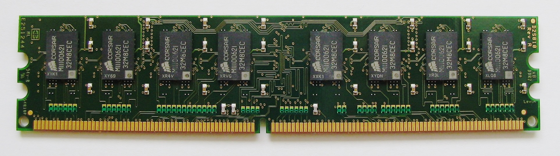 Corsair DDR2-533 RAM module